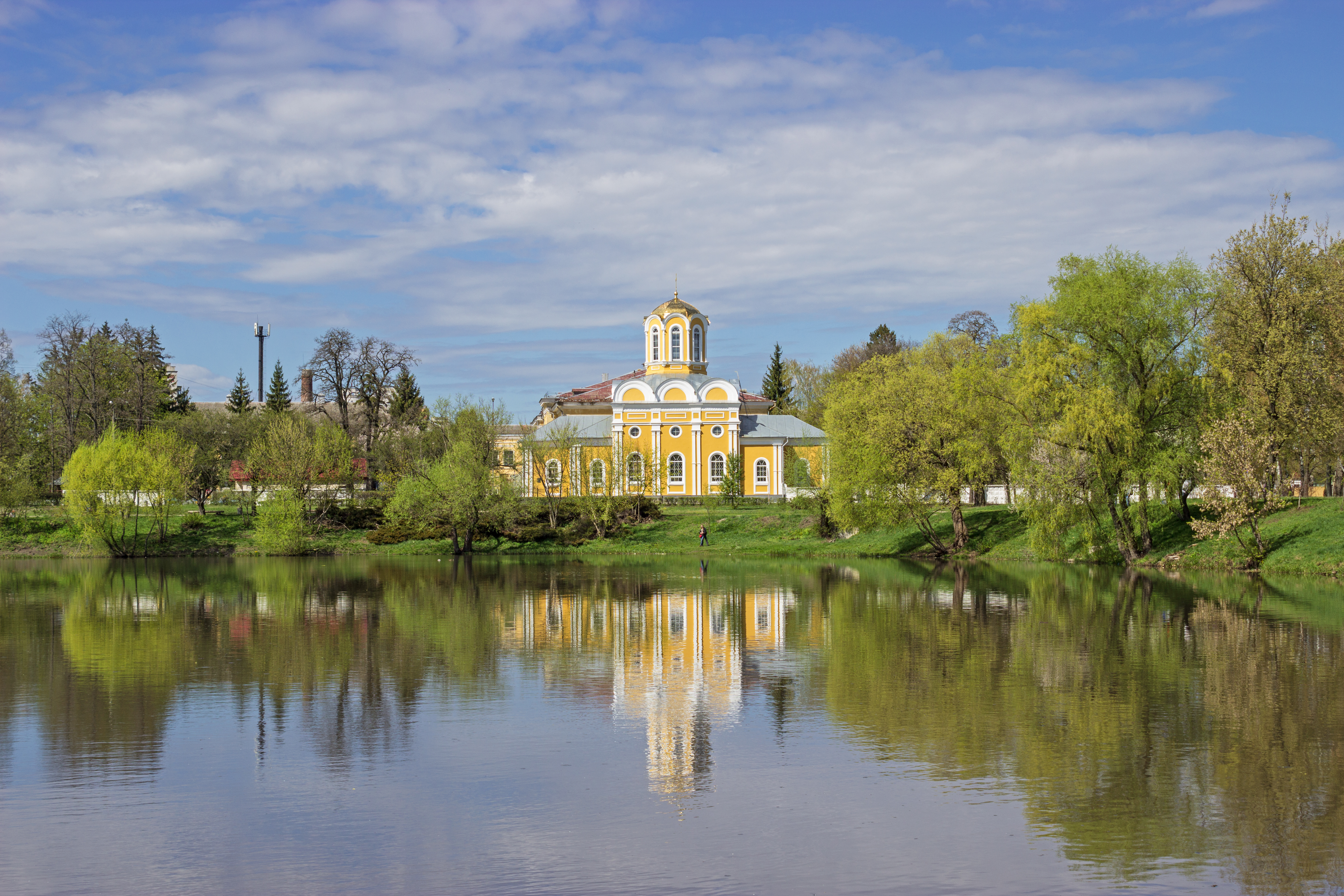 Church of St. Michael and Theodore, Chernihiv